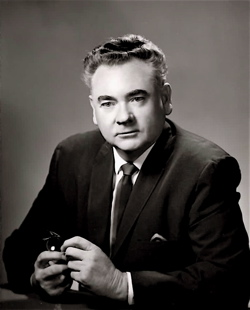 Author photo of Clyde M. Narramore